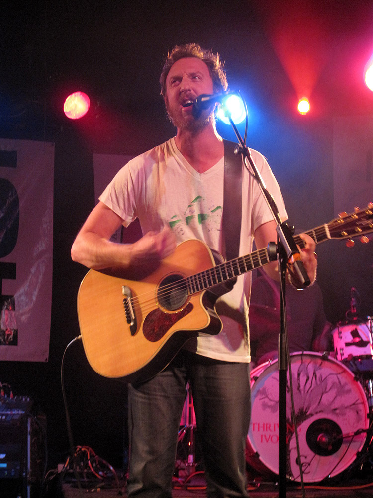 Ryan Miller performing with Guster at the Water Street Music Hall, Rochester, NY, December 8, 2010.